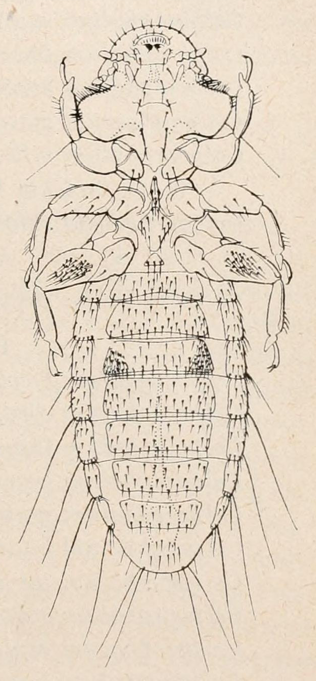 "Actornithophilus uniseriatus (P), ventral side of male."